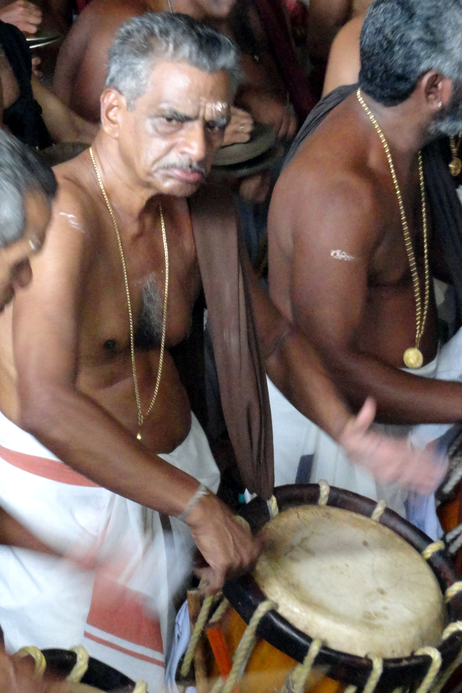 Kizhakkoottu Aniyan Marar a famous Chenda Artist of Kerala, India.